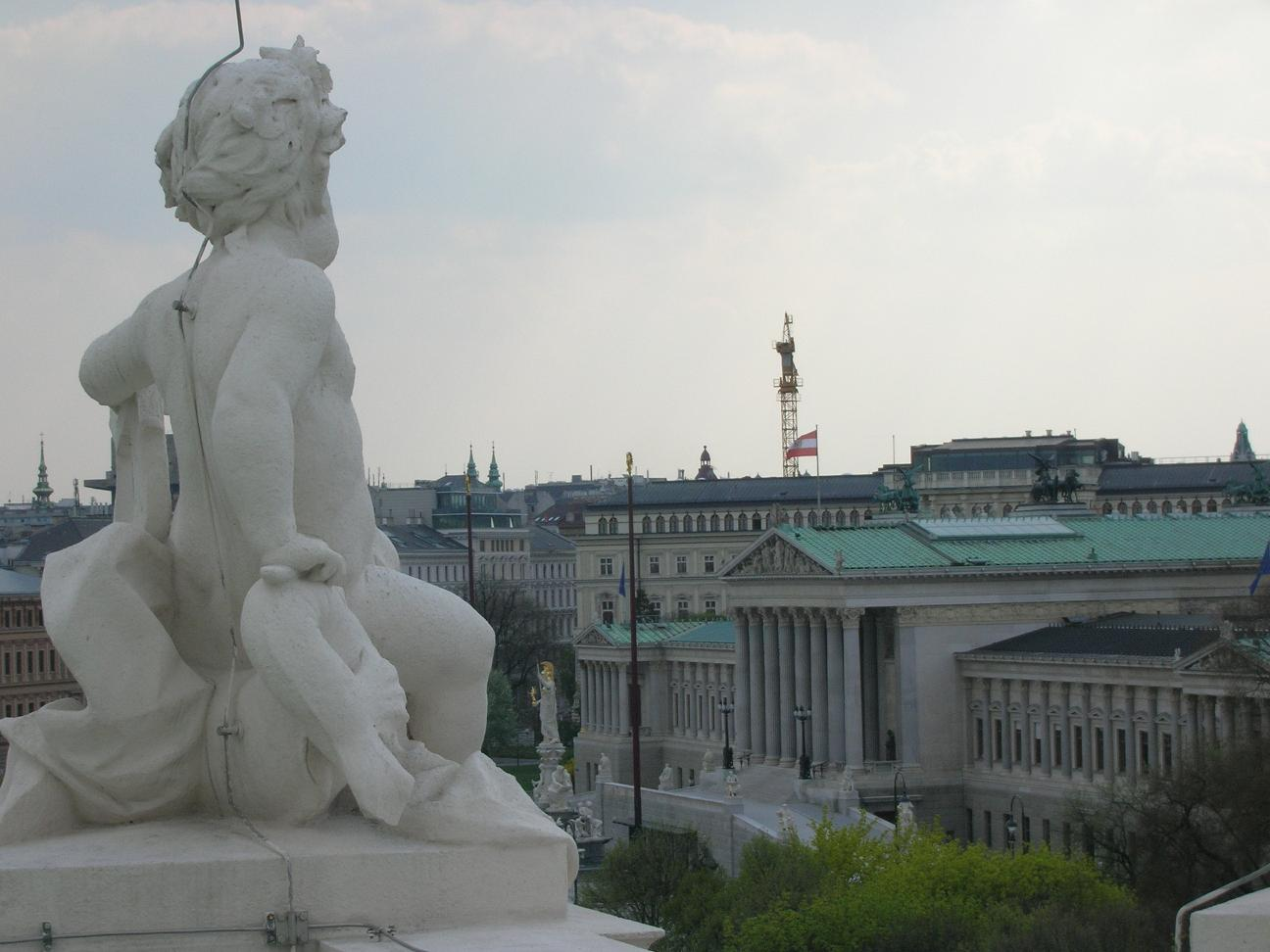 Austria, Vienna, Burgtheater